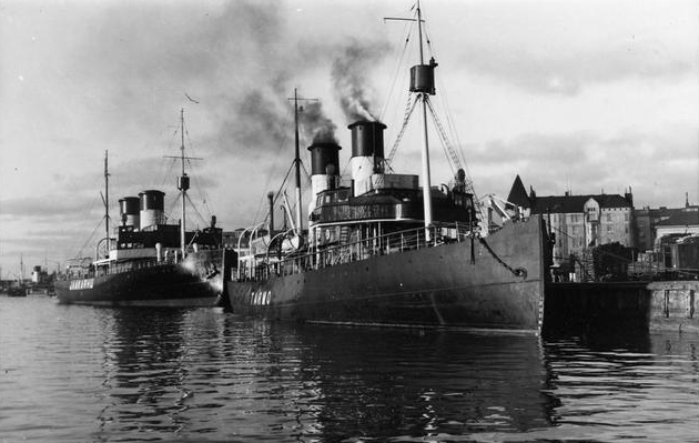 Finnish state-owned icebreaker Tarmo with another Finnish icebreaker, Jääkarhu, in the background.